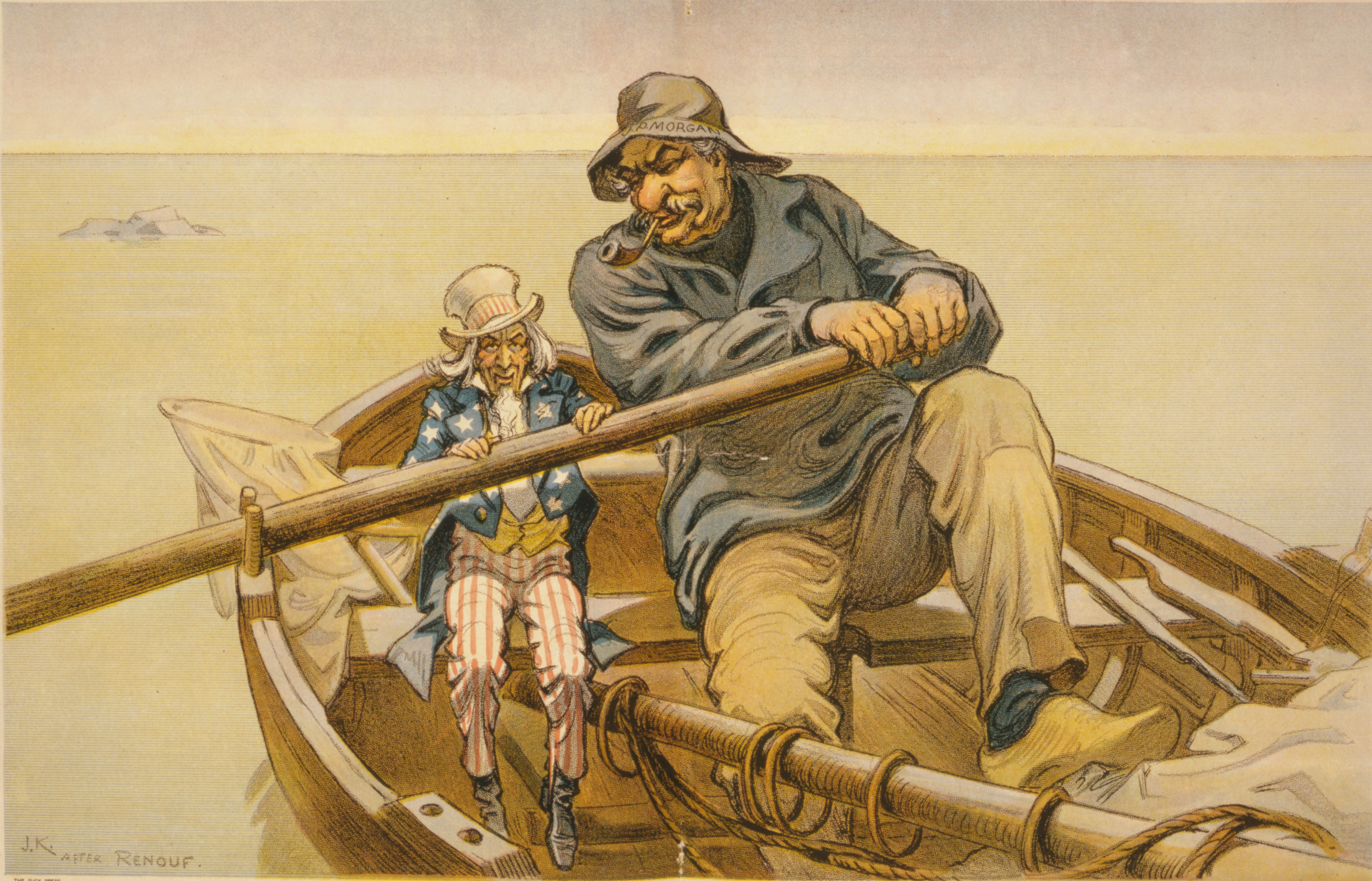 A political cartoon from Puck magazine by Udo Keppler titled "The Helping Hand" that parodies Émile Renouf's 1881 painting of the same name (see File:RenoufHelpingHand.jpeg). Cartoon shows Uncle Sam and J.P. Morgan rowing a boat. Morgan's enormous size reflects his stature and the importance of his banking operations to the country.